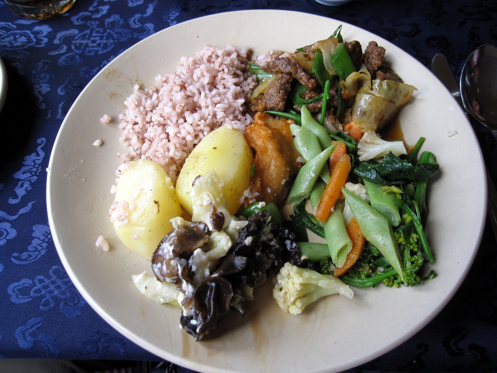 Mix of Bhutanese food: potatoes, bhutanese red rice, greens and mushrooms.